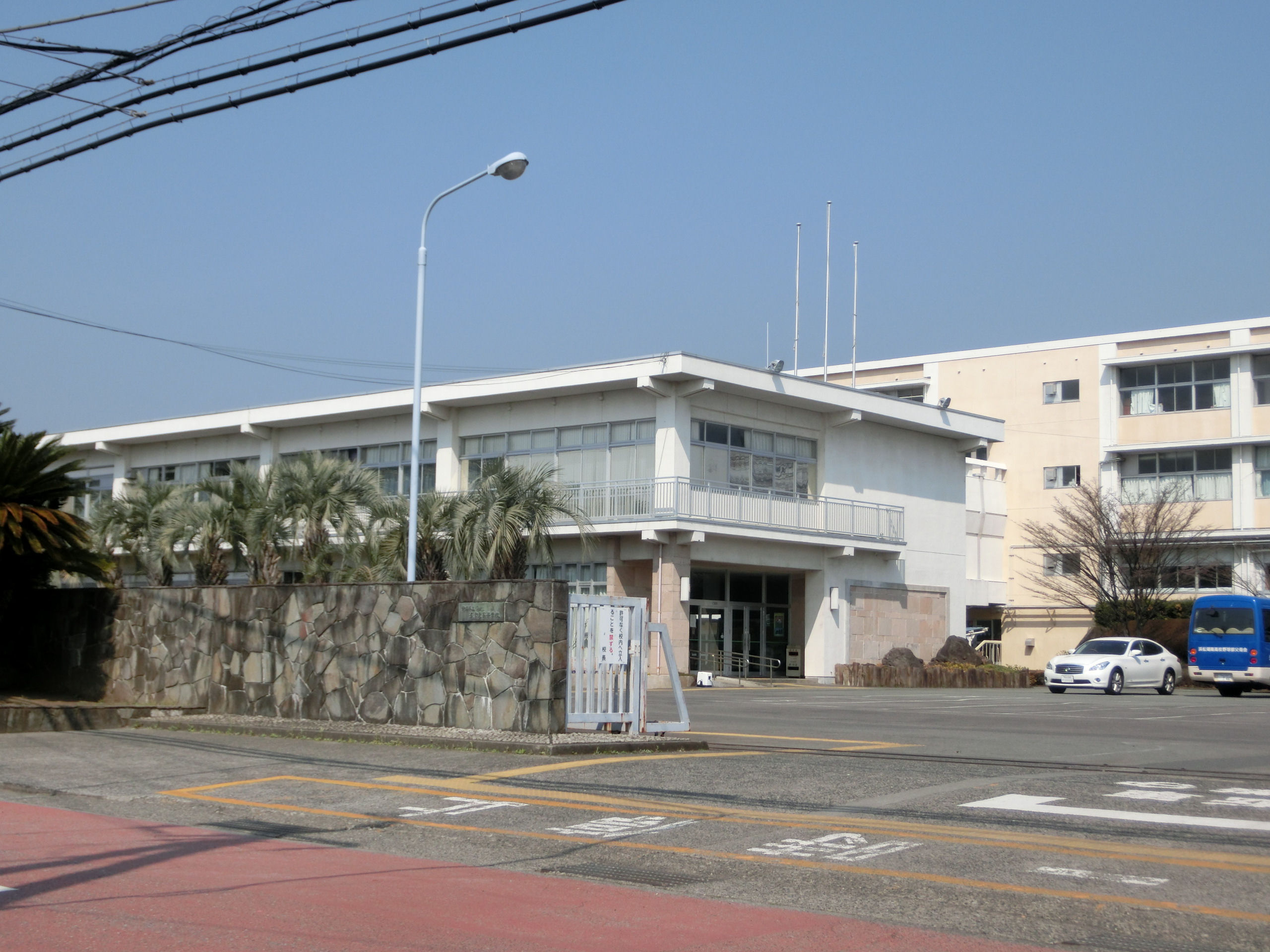 Numazu-Higashi High School